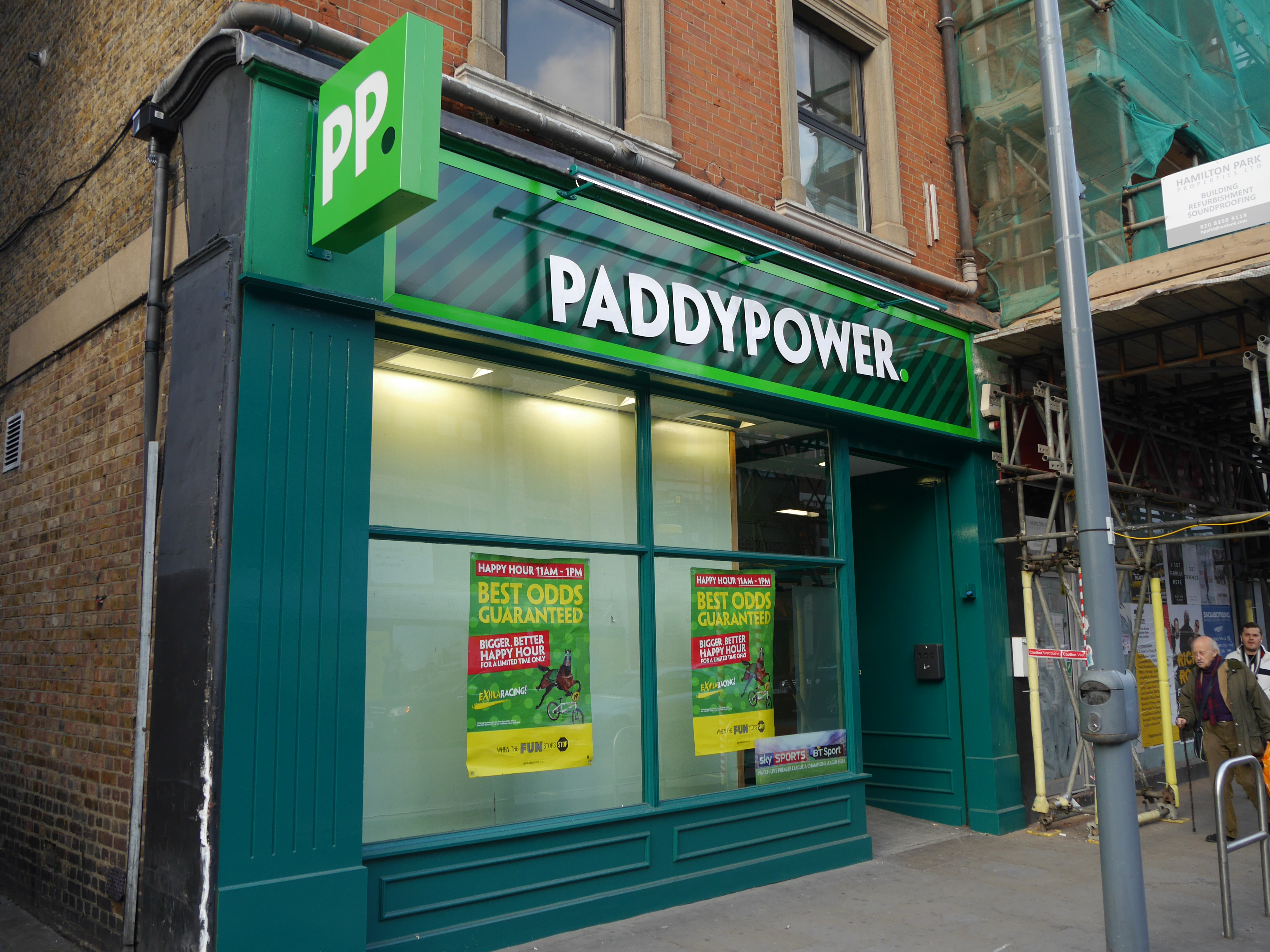 King Street, Hammersmith